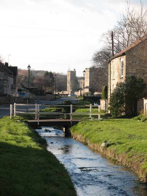 Winter afternoon, Snape In Snape village centre, looking along the beck towards the castle.